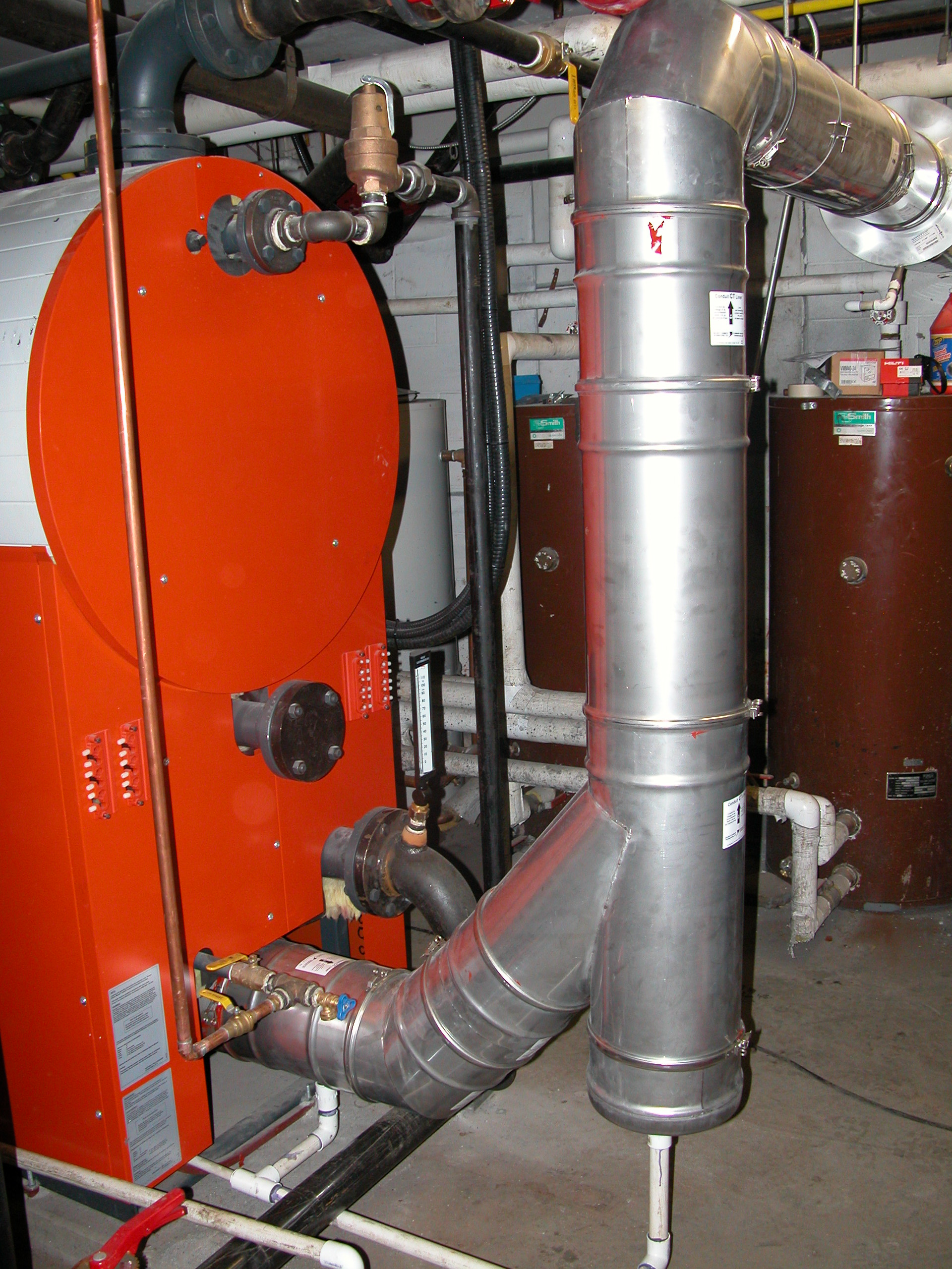 Condensing Boiler Exaust